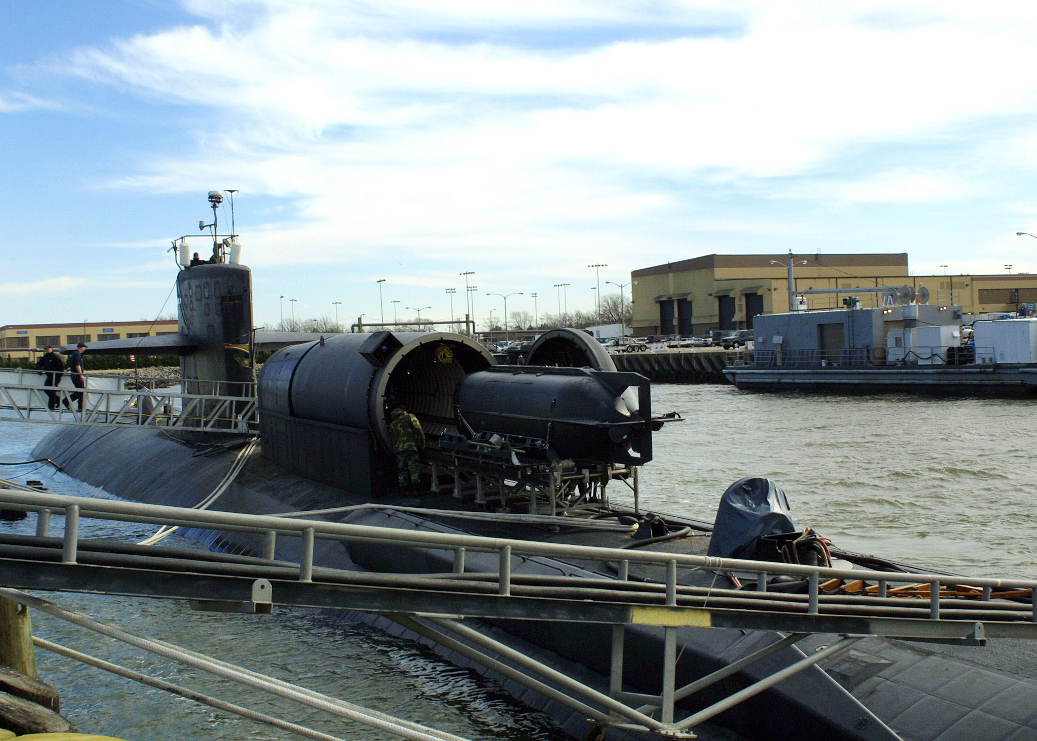 A SEAL Delivery Vehicle (SDV) is loaded aboard the Los Angeles-class fast attack submarine USS Dallas (SSN 700). A Dry Deck Shelter (DDS) equipped submarine is attached to the submarine's forward escape trunk to provide a dry environment for Navy Seals to prepare for special warfare exercises or operations. DDS is the primary supporting craft for the SDV.